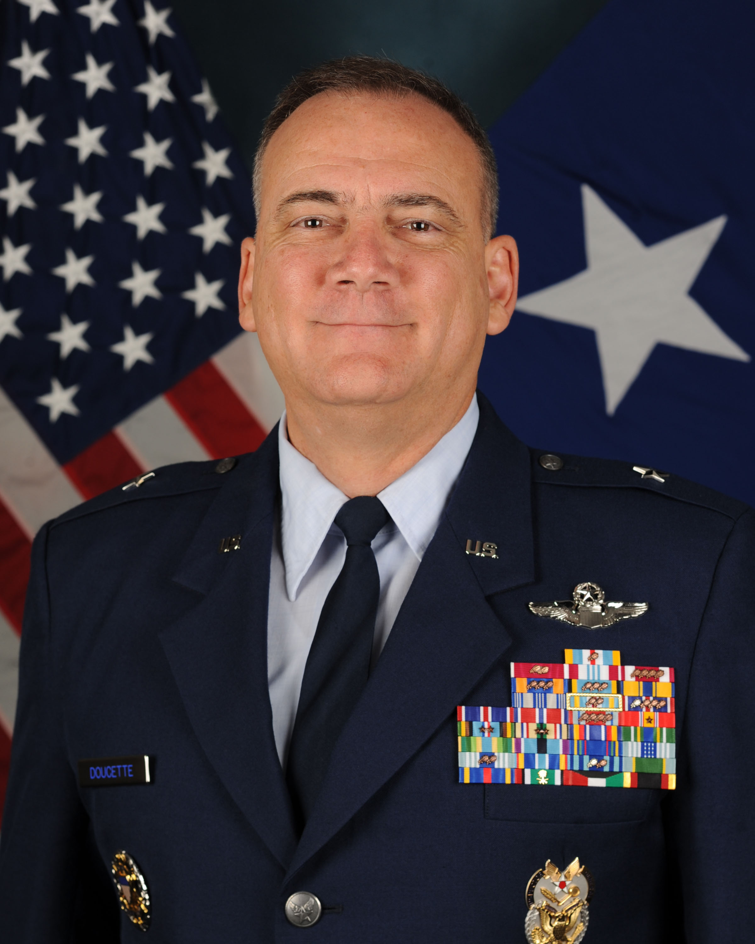 Brig. Gen. John W. Doucette